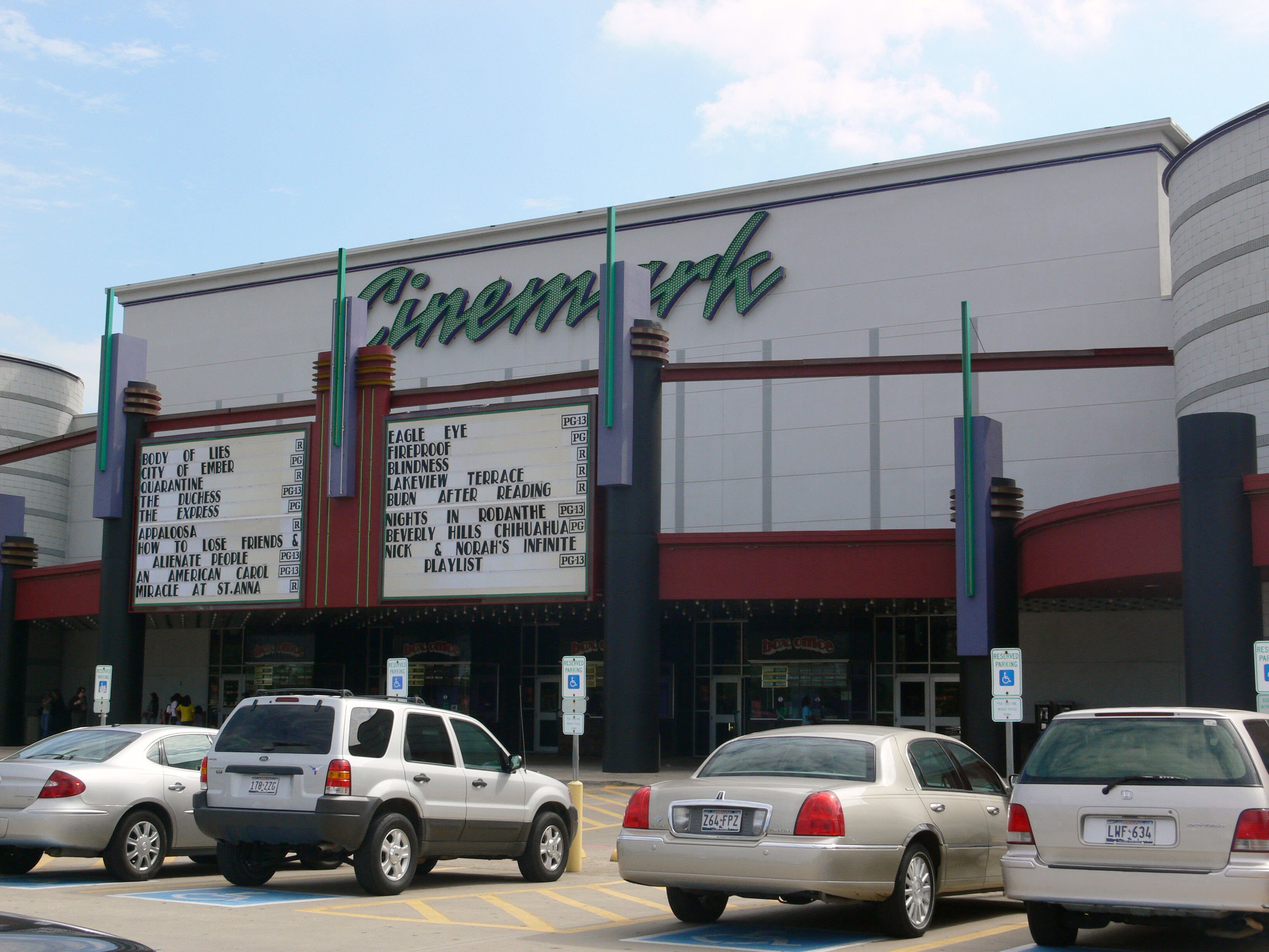 Cinemark 17 and IMAX Theatre, 11819 Webb Chapel Road, Dallas, Texas 75234